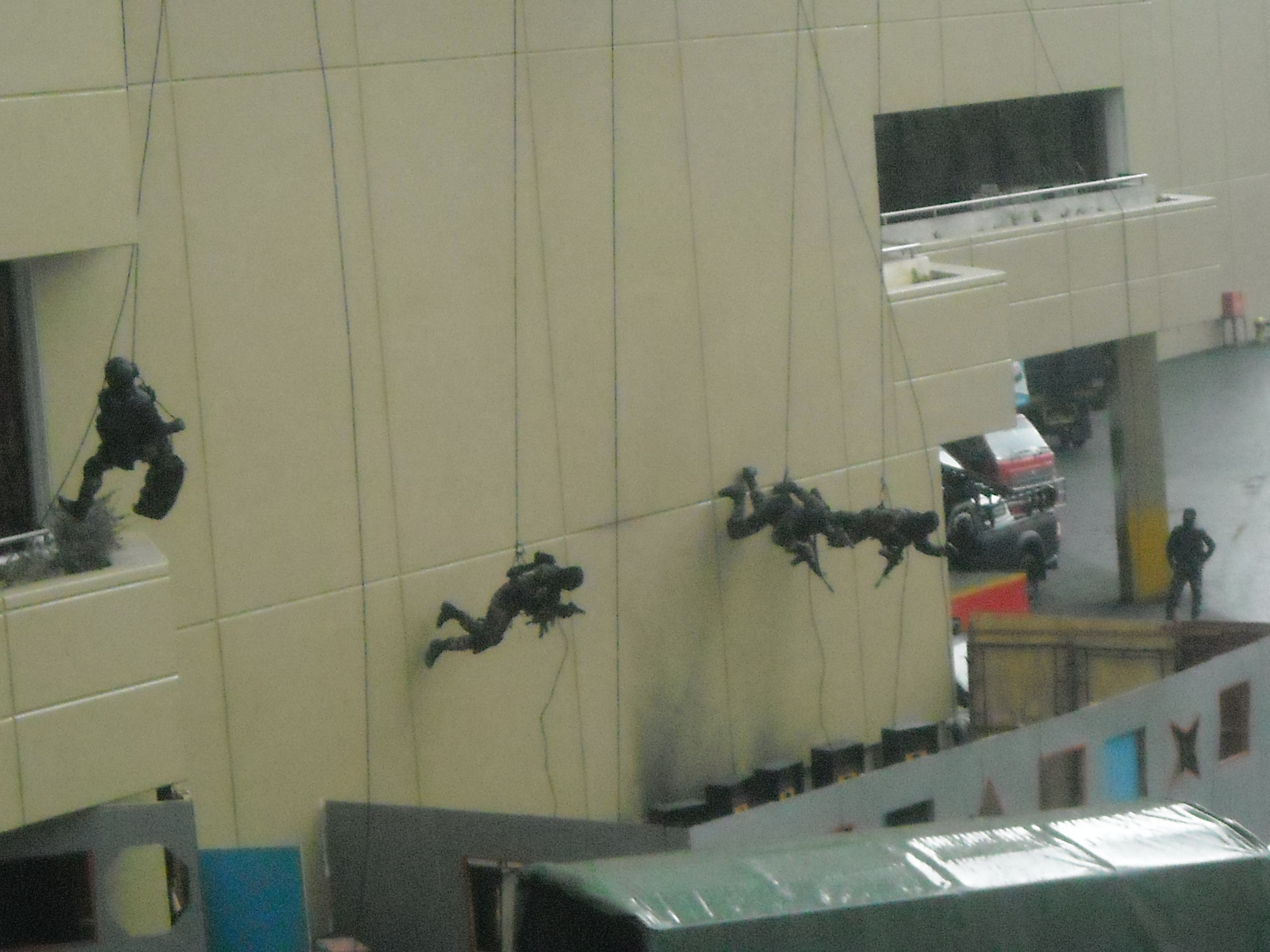 The team of 11th CTU members conduct Australian rappel down into the kill house during the Defense Services Asia 2012 or DSA 2012 Exhibition at Kuala Lumpur, Malaysia.